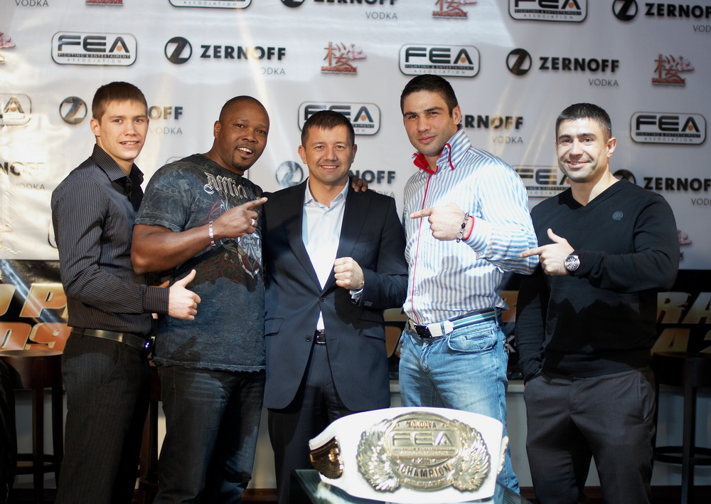 Artur Kyshenko, Ivan Ippolit, Damir Dorin, Ruslan Karaev